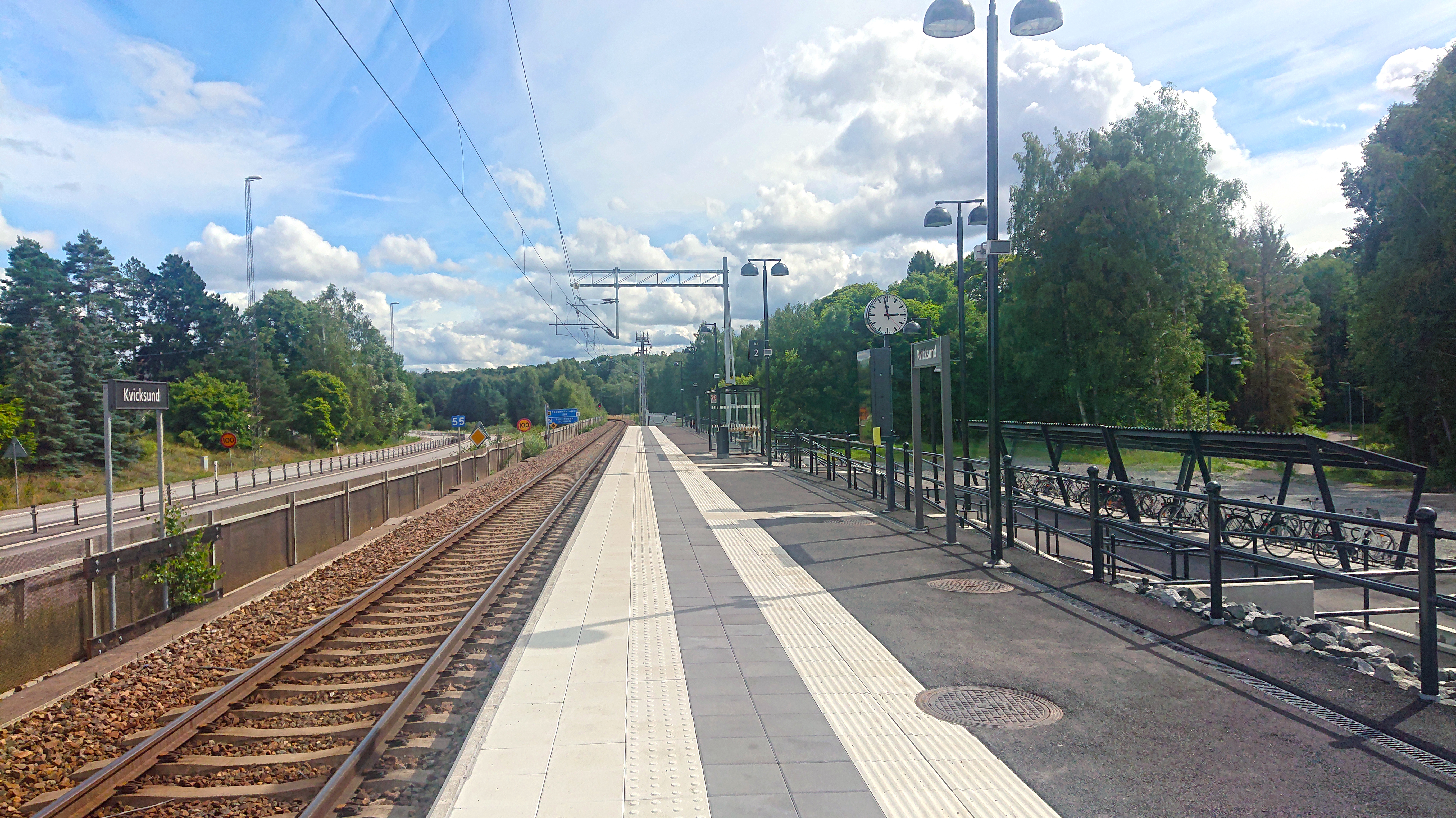 Train station in Kvicksund